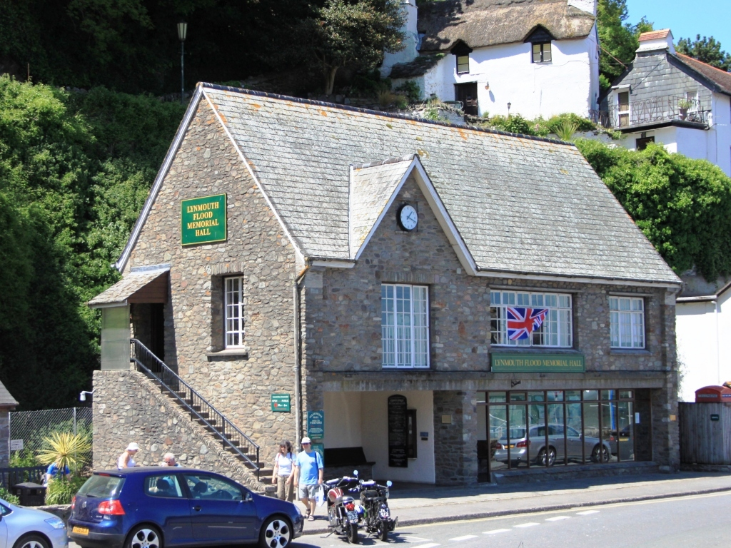 The Flood Memorial Hall at Lynmouth in Devon, England. This is built on the spot - and to the outline of - the old lifeboat station which was washed away, along with many other buildings around the harbour, in a flood on 15 August 1952.